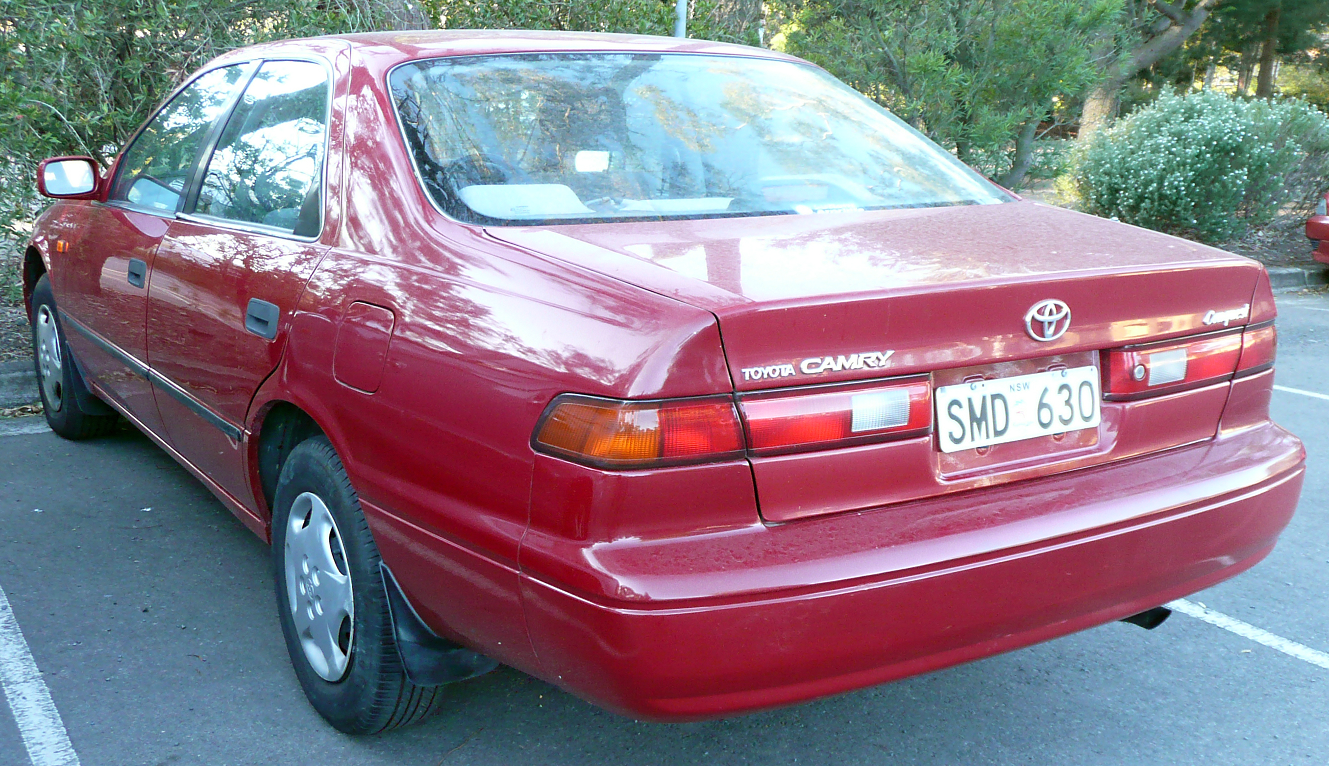 1999–2000 Toyota Camry (SXV20R) Conquest sedan. Photographed in Sutherland, New South Wales, Australia.